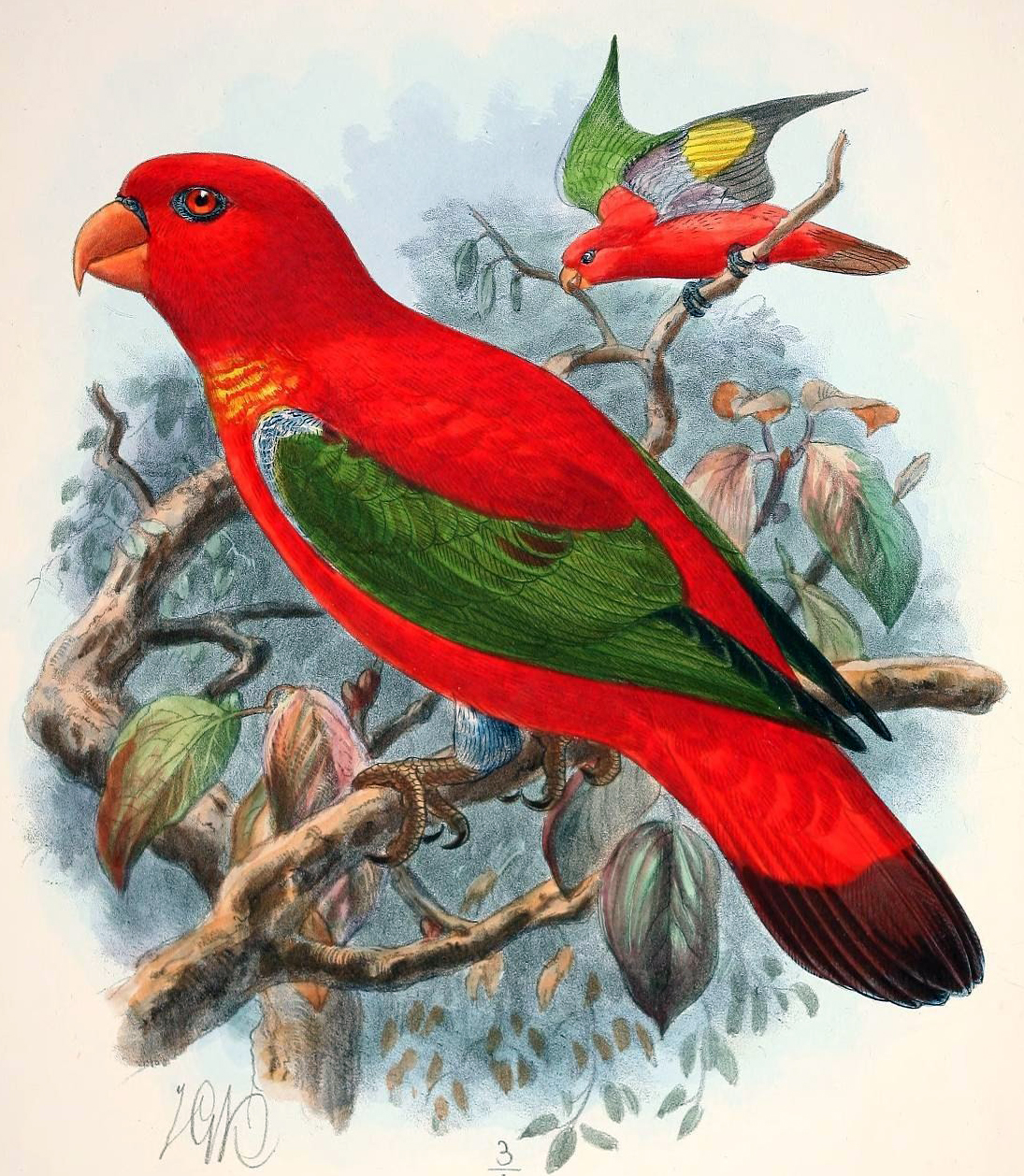 The Blue-Thighed Lory (Lorius tibialis) Chromolithograph. Plate XXIII from A monograph of the lories, or brush-tongued parrots, composing the family Loriidae. By St. George Jackson Mivart (1827–1900). Artwork by John Gerard Keulemans (1842-1912). This was published by R. H. Porter (London) in 1896.